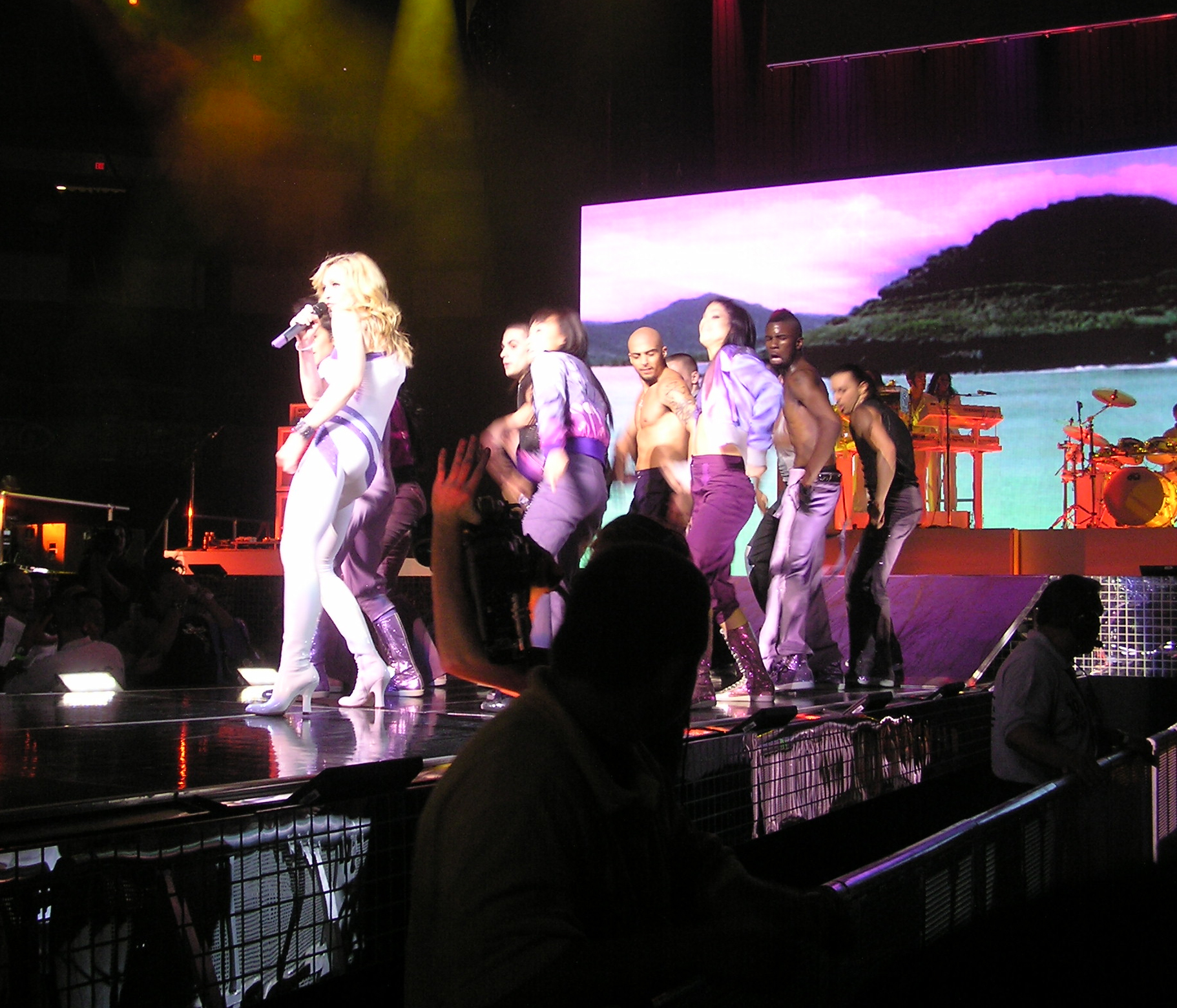 2006 6-5 Fresno trip (249)